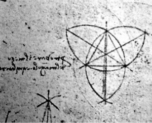 Lunate drawing of Leonardo da Vinci, with a curved triangle figure in the center